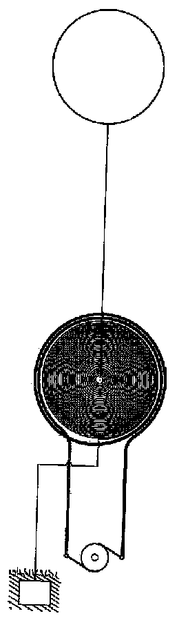 Tesla, in U.S. Patent 0645576 System of Transmission of Electrical Energy and U.S. Patent 0649621 Apparatus for Transmission of Electrical Energy, described new and useful combinations employed in transformer coils. The transmitting coil or conductor arranged and excited to cause currents or oscillation to propagate through conduction through the natural medium from one point to another remote point therefrom and a receiver coil or conductor of the transmitted signals. The production of currents of very high potential could be attained in these coils.